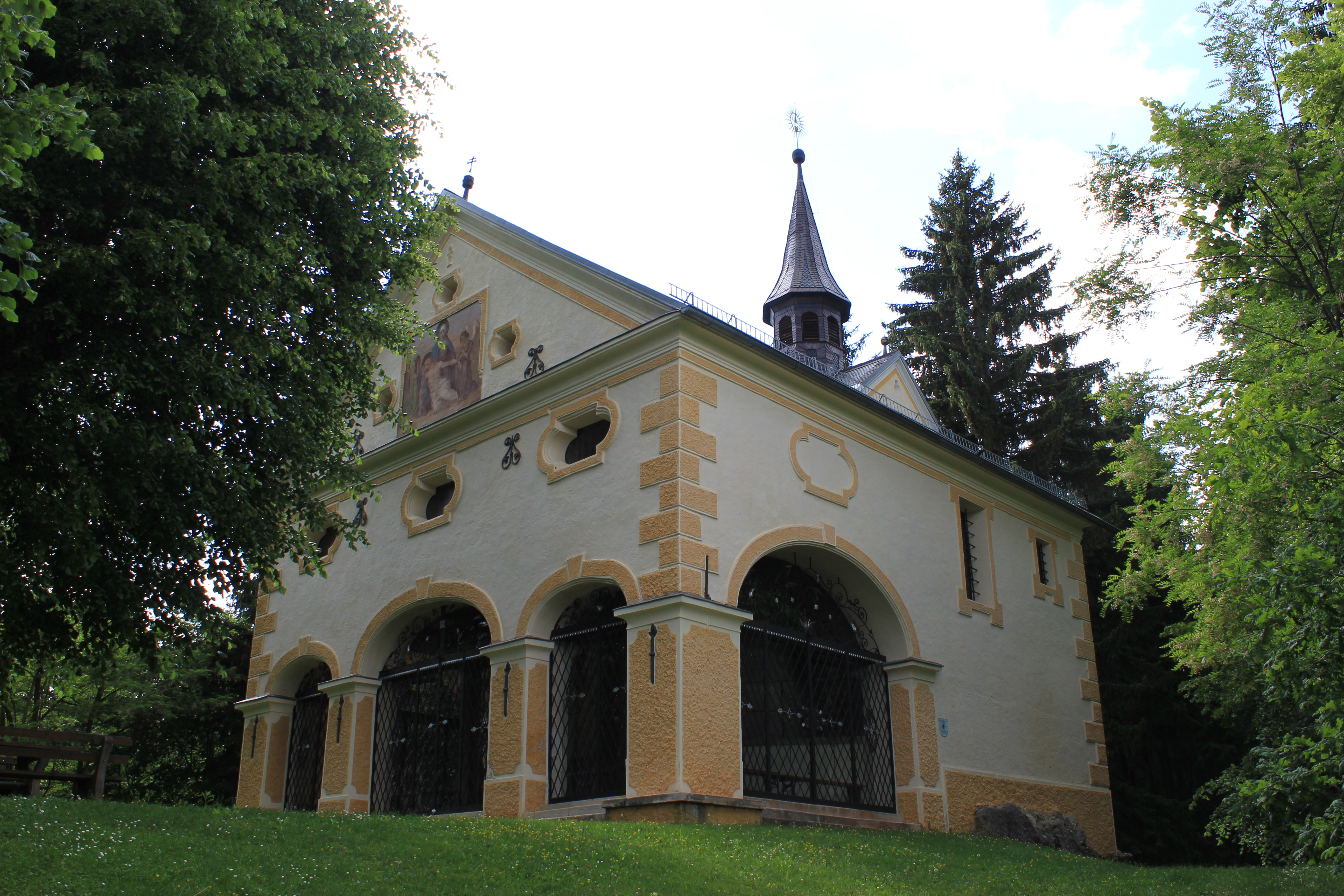 Calvary Church in Althofen